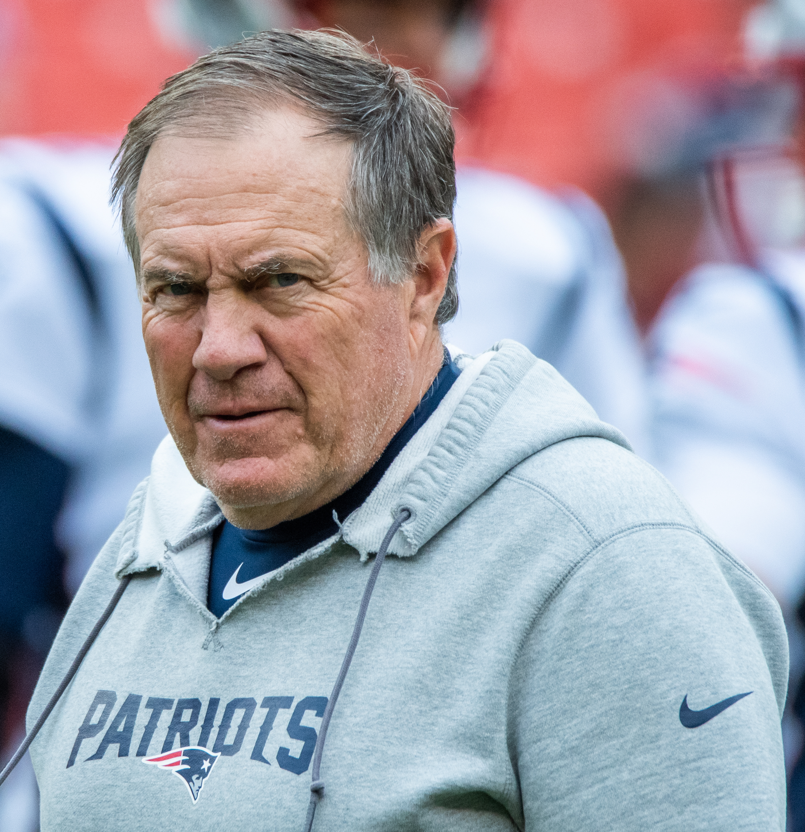 In 2019